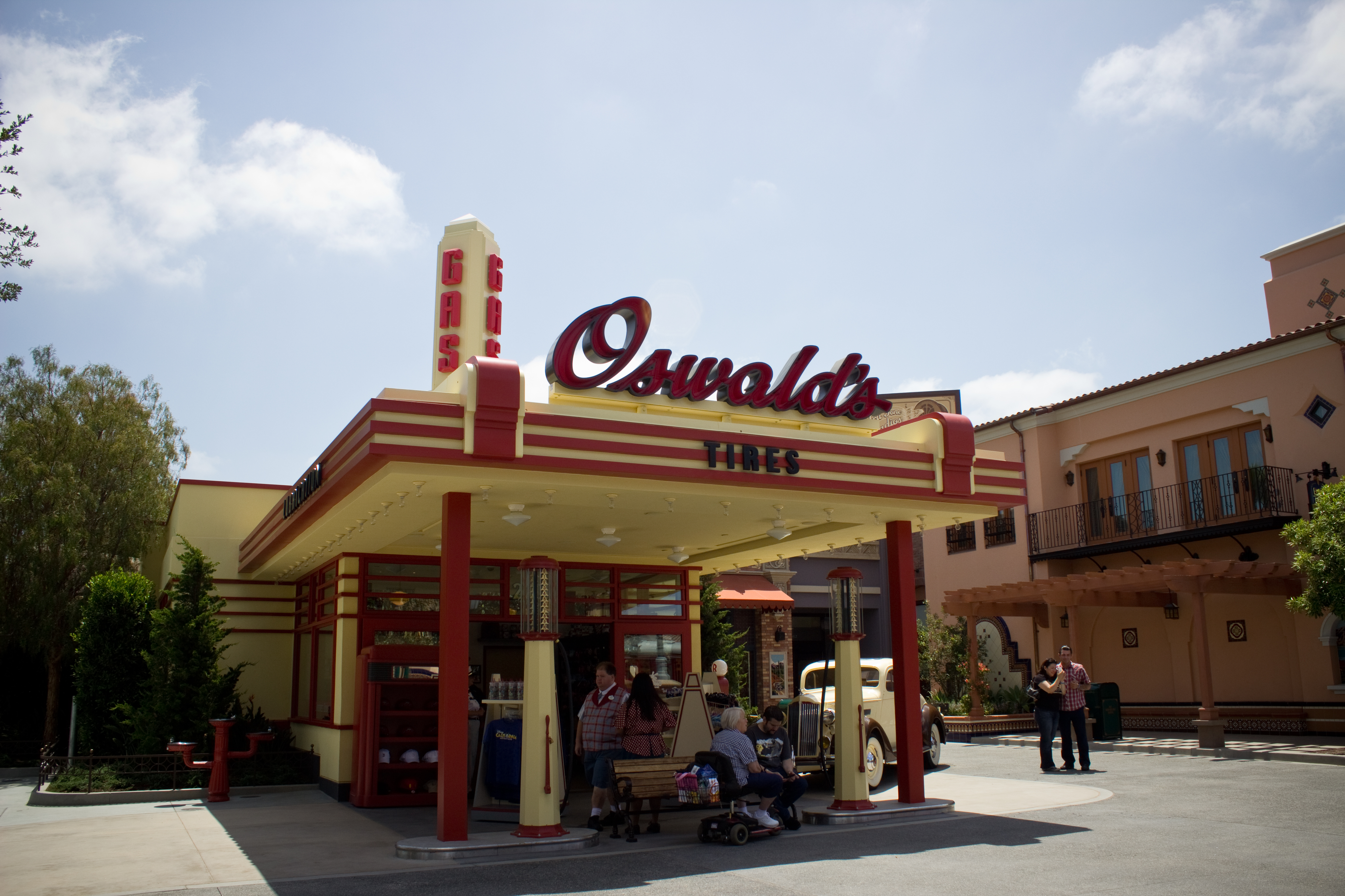 Oswald's Service Station on the brand new and absolutely beautiful Buena Vista Street at Disney California Adventure.